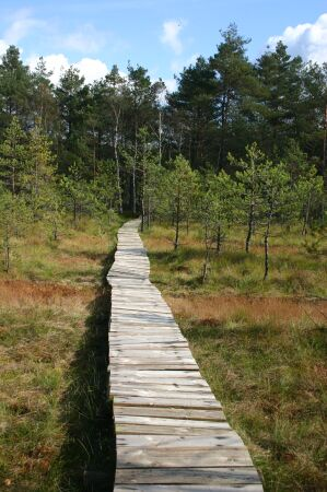 Nature trail on the Kusowo Bog, nature reserve in Poland. Photo by Pawel Pawlaczyk